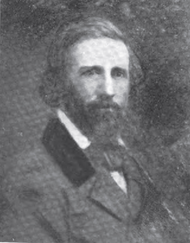 Kentucky Congressman James B. Clay